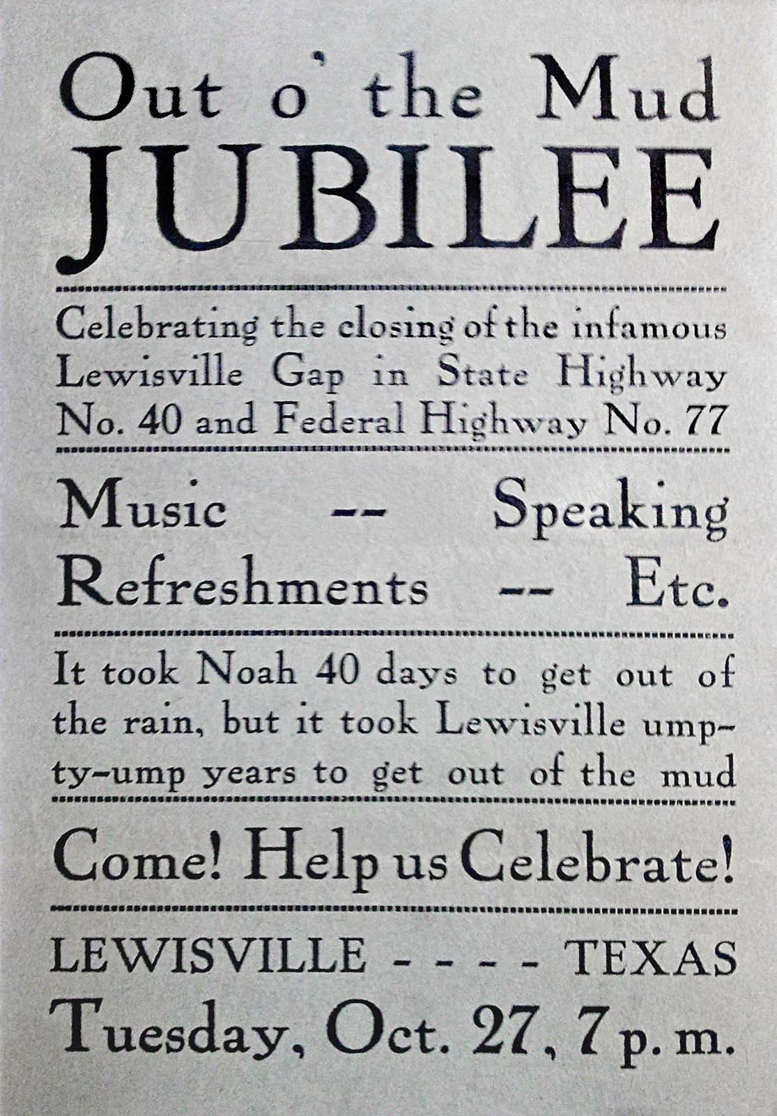 Lewisville, Texas "Out of the Mud Jubilee" flyer from 1932.